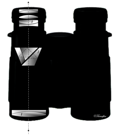 Schmidt-Pechan prism-Binocular.